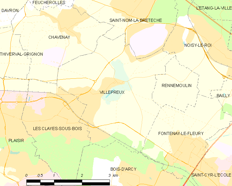 Map of French municipality Villepreux